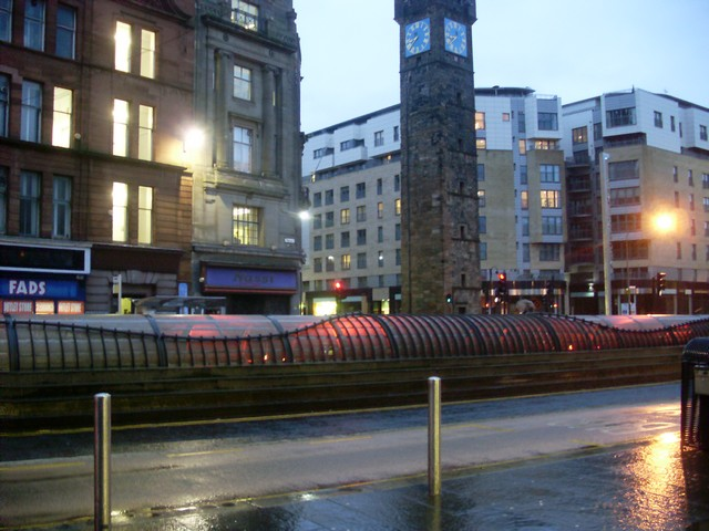 Former Glasgow Cross Railway Station The former station has been disused since 1964, although the platforms still remain on the Glasgow Central Low Level line. There has been recent talk of reopening the station as part of the Glasgow Crossrail project.